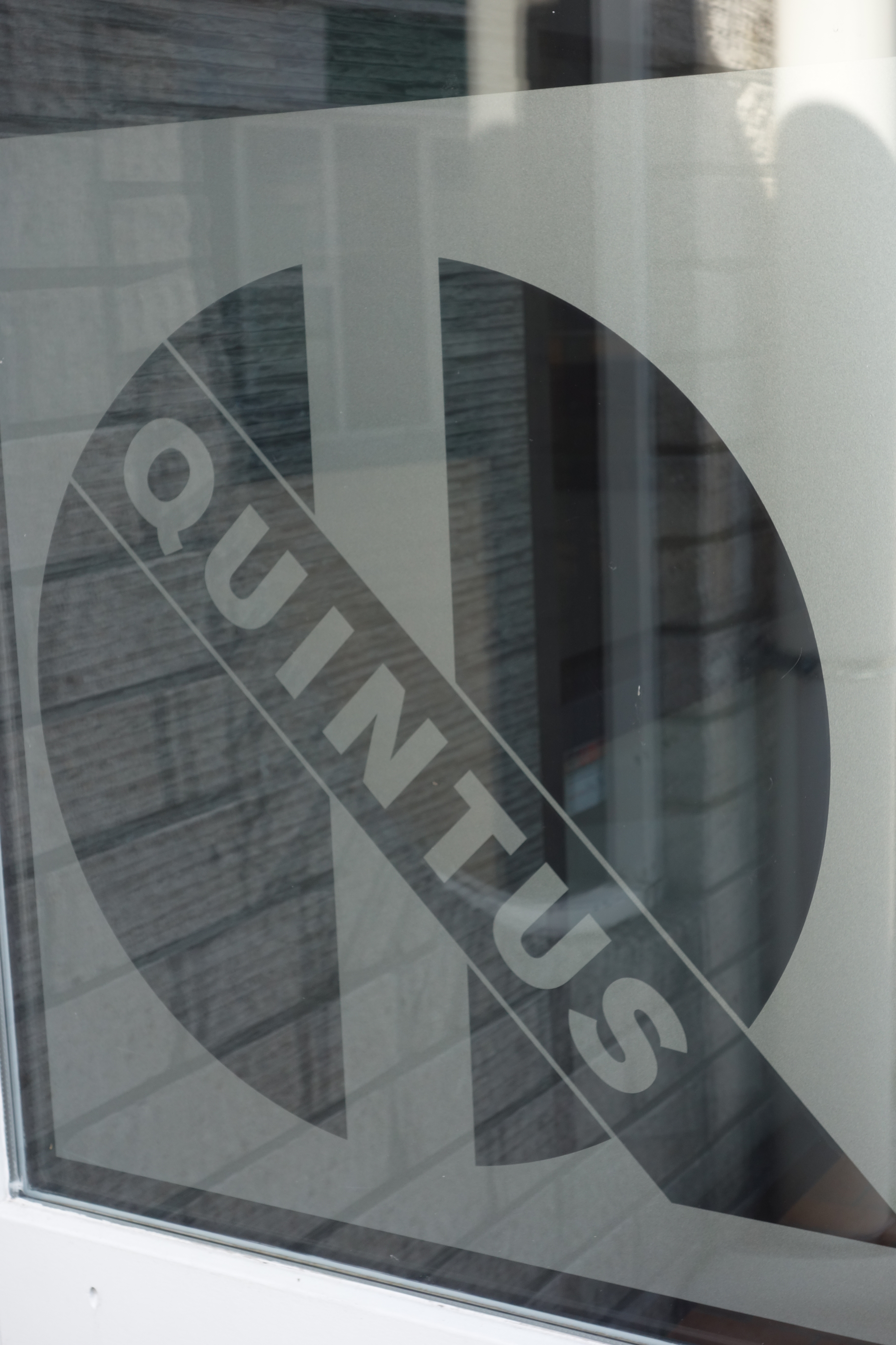 Logo of sports club Quintus (Kwintsheul, Westland, the Netherlands)